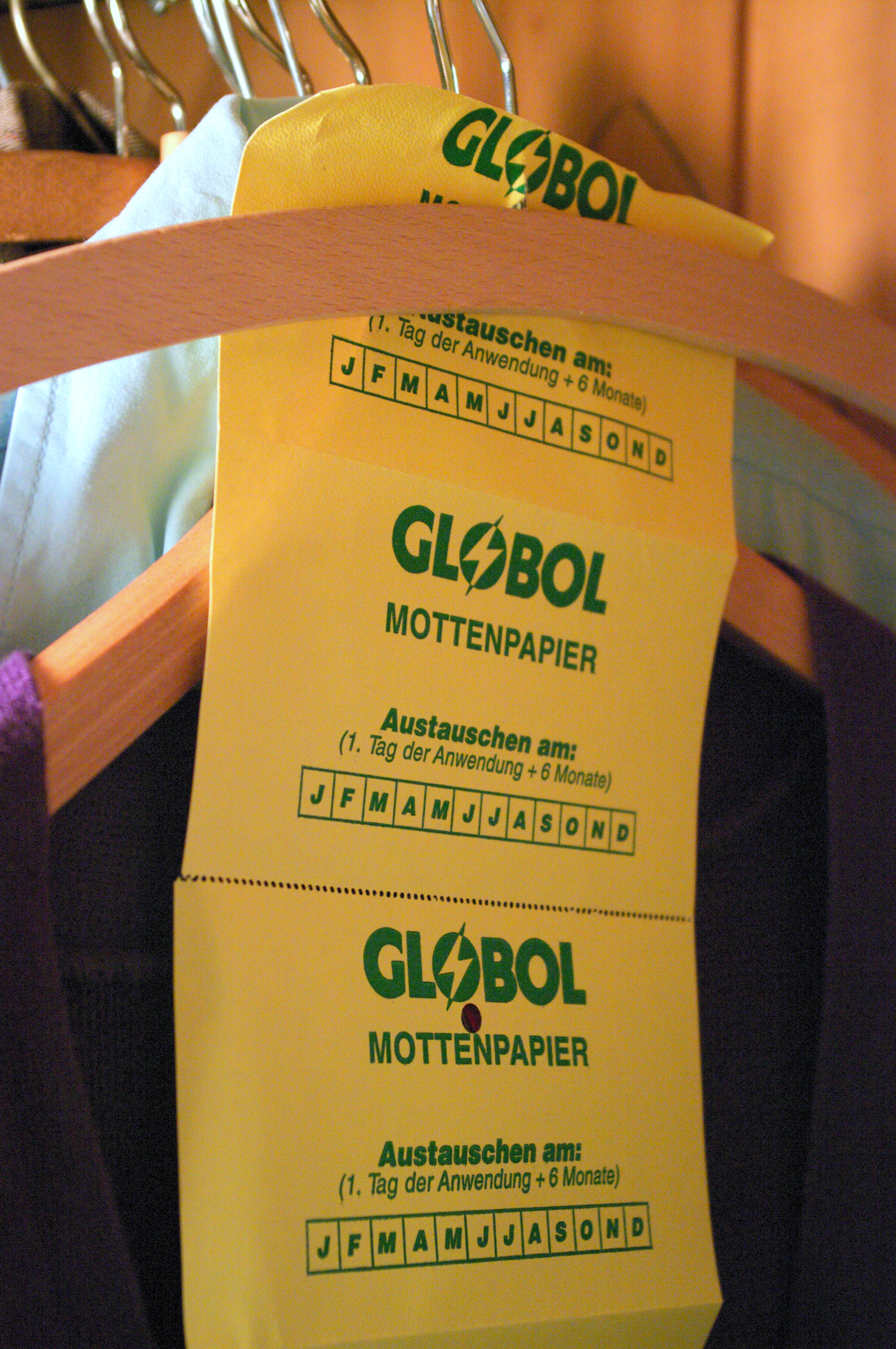 Moth repellent in paper form